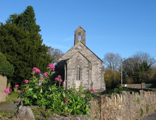 Former Church of Ireland building in Clogheen, Co Tipperary